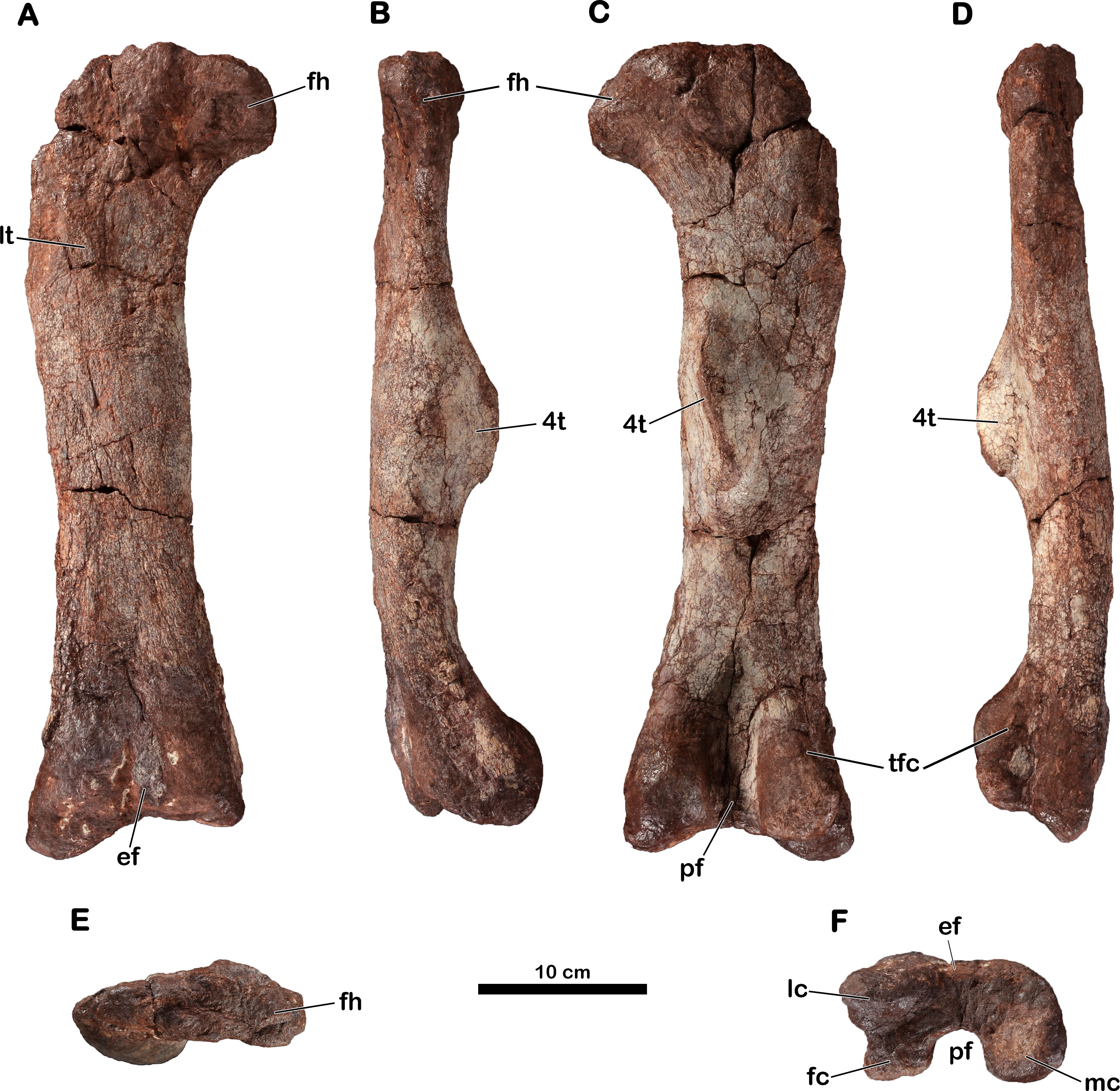 Right femur of Meroktenos, MNHN.F.LES16c. (A) Anterior, (B) medial, (C) posterior, (D) lateral, (E) proximal, and (F) distal views. ef, extensor fossa; fc, fibular condyle; fh, femoral head; lc, lateral condyle; lt, lesser trochanter; mc, medial condyle; pf, popliteal fossa; tfc, tibiofibular crest; 4t, fourth trochanter. (Photo credit: L Cazes.)